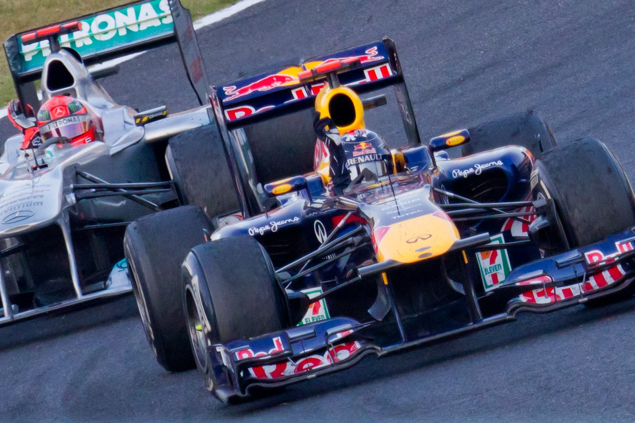 Formula One 2011 Rd.15 Japanese GP: Sebastian Vettel (Red Bull) celebrating the world title.